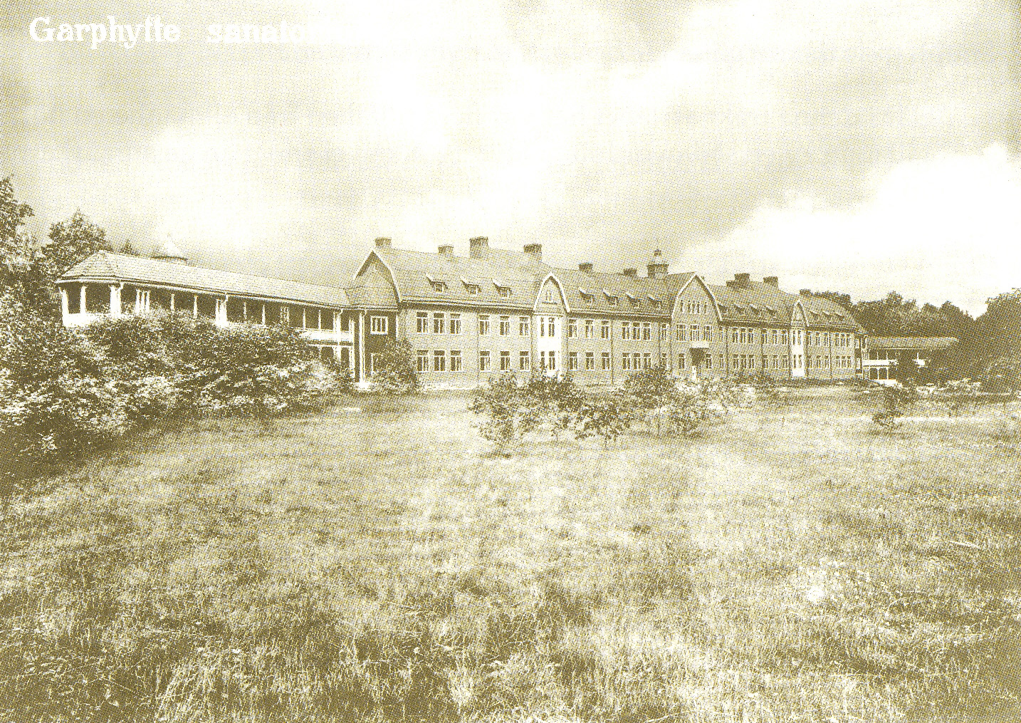 The sanatorium in Garphyttan, Sweden